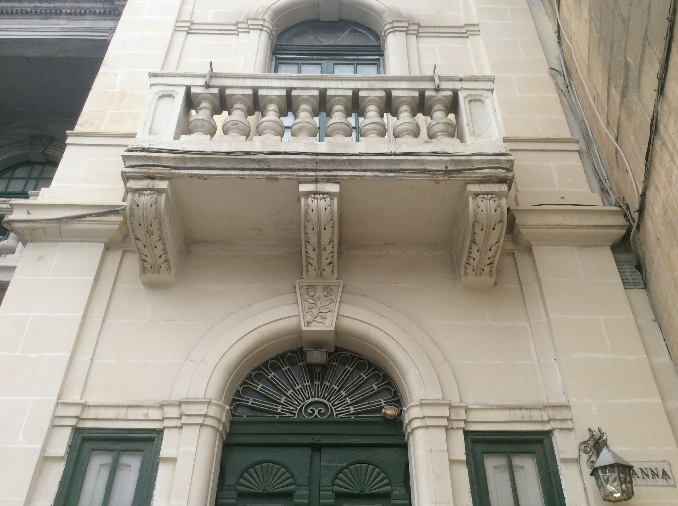 St Anne house, part of Villa Lauri